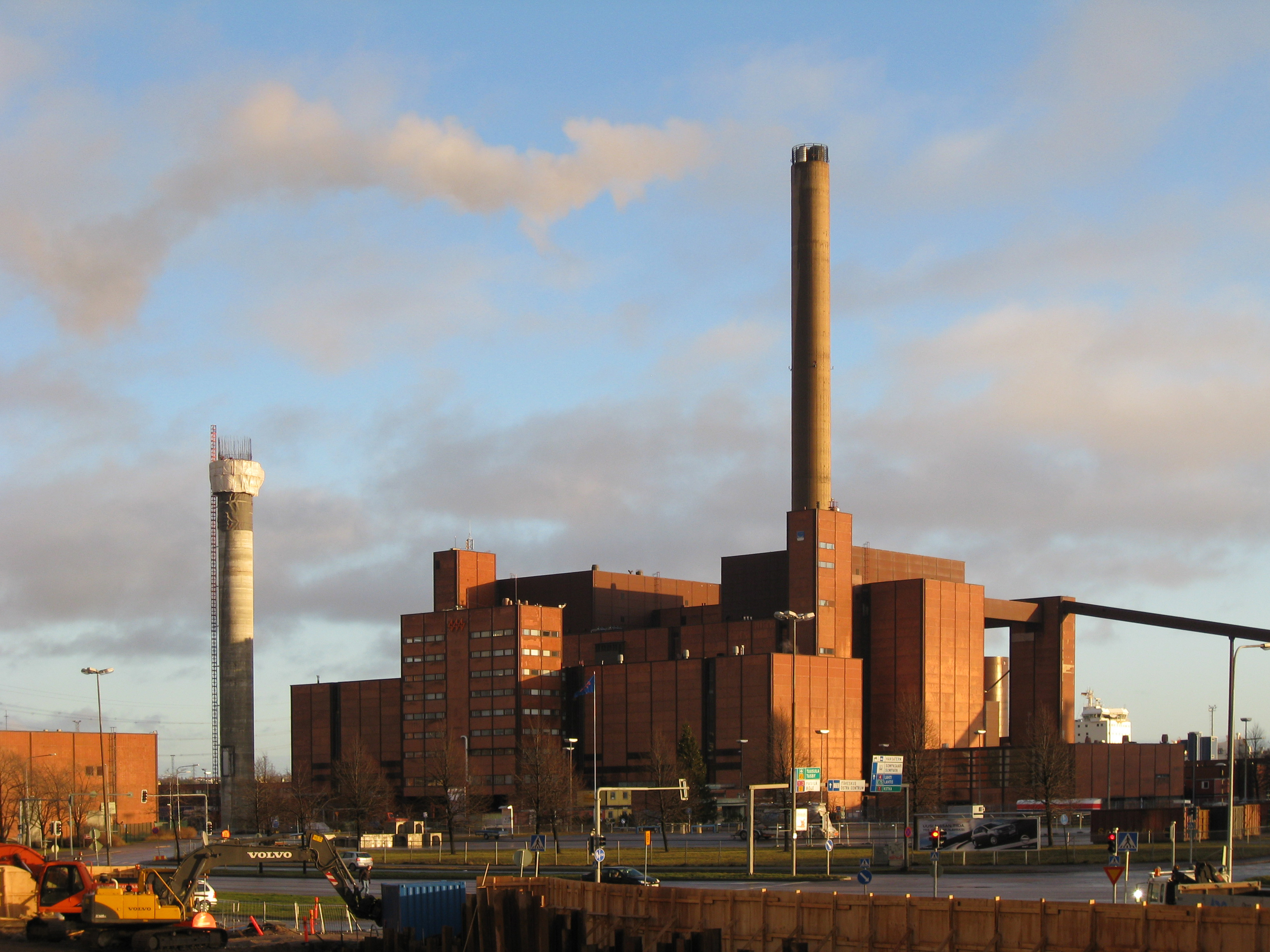 Hanasaari B cogeneration coal plant in Helsinki. New chimney under construction